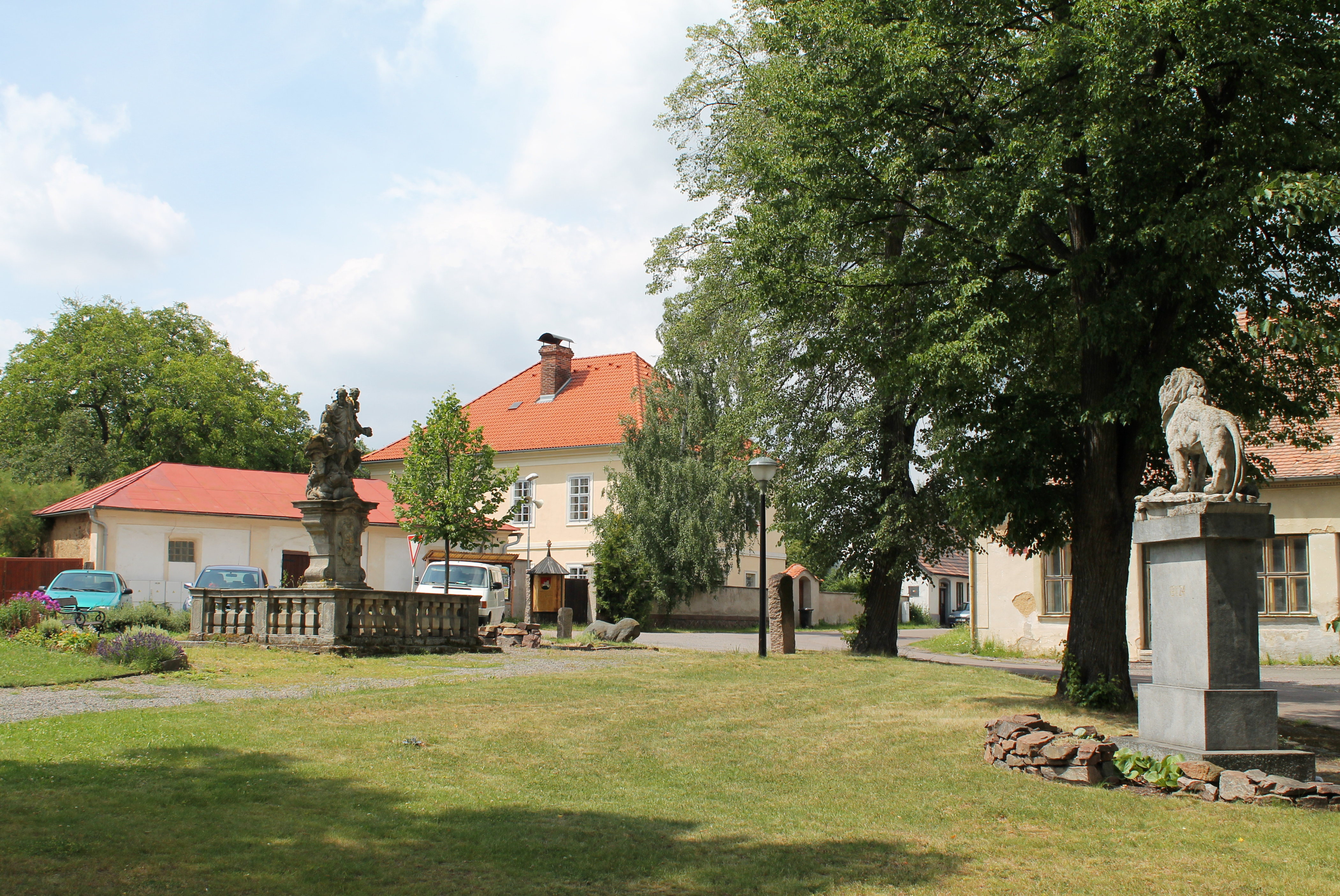 Žumberk, Chrudim District, Czech Republic